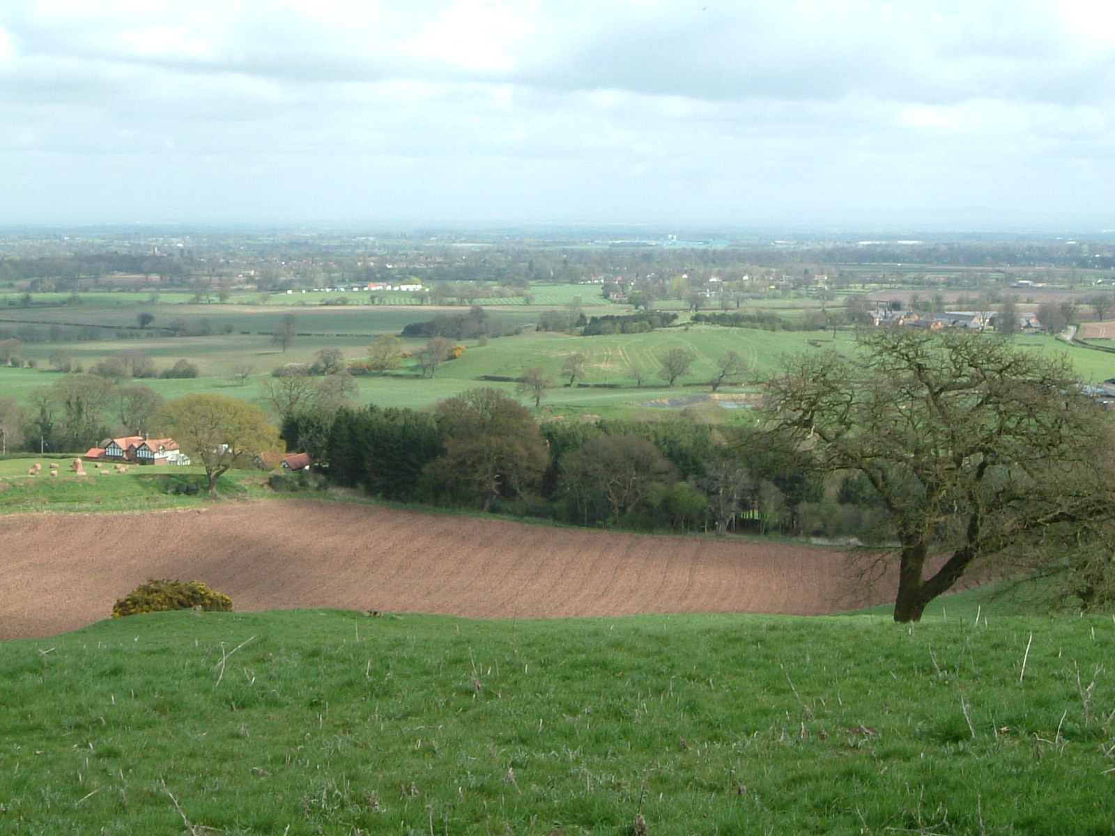 The Cheshire Plain - photo taken from Mid-Cheshire Ridge